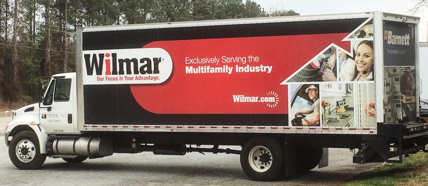 Photo of a Wilmar delivery truck